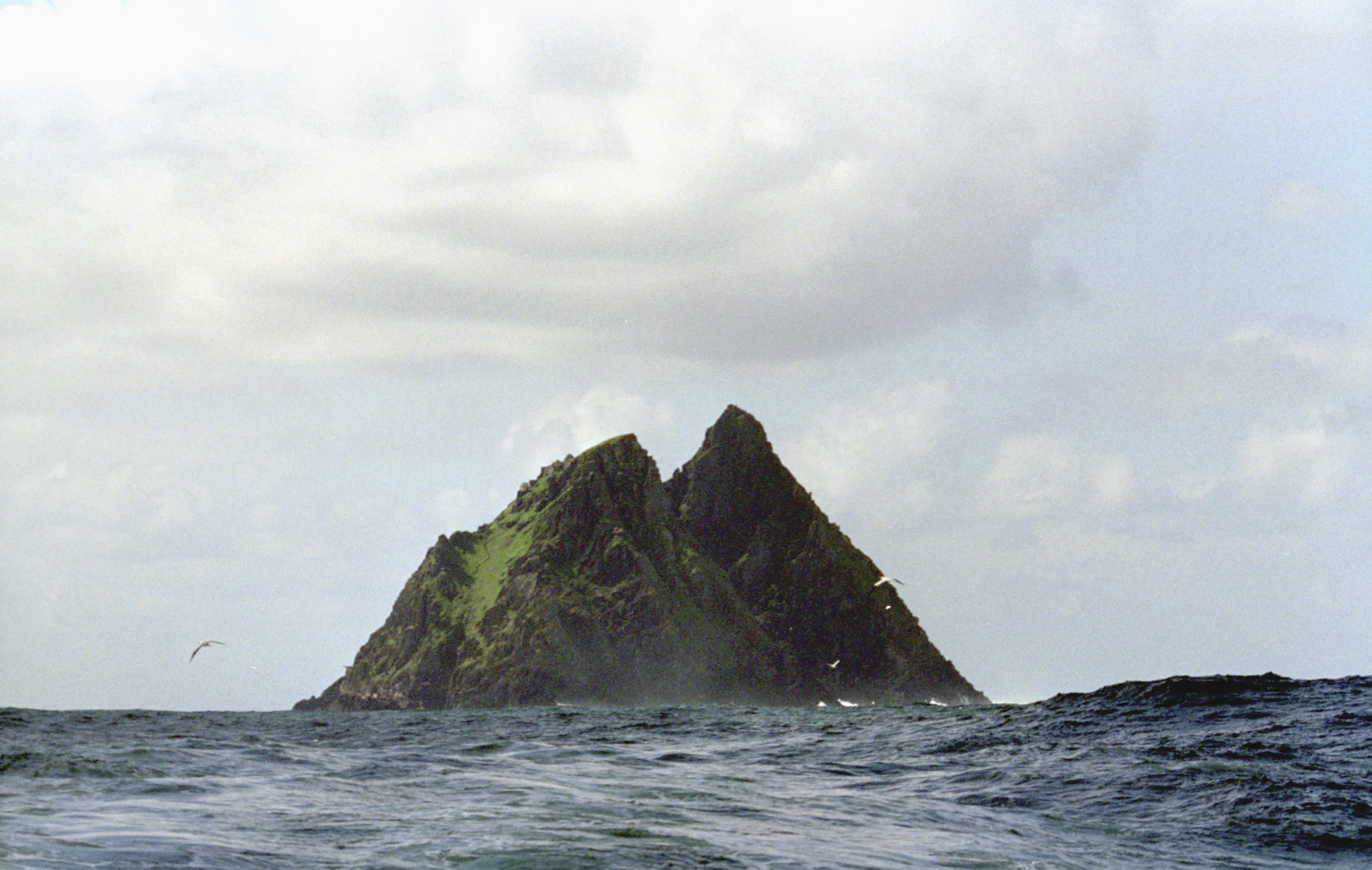 The Skellig Michael